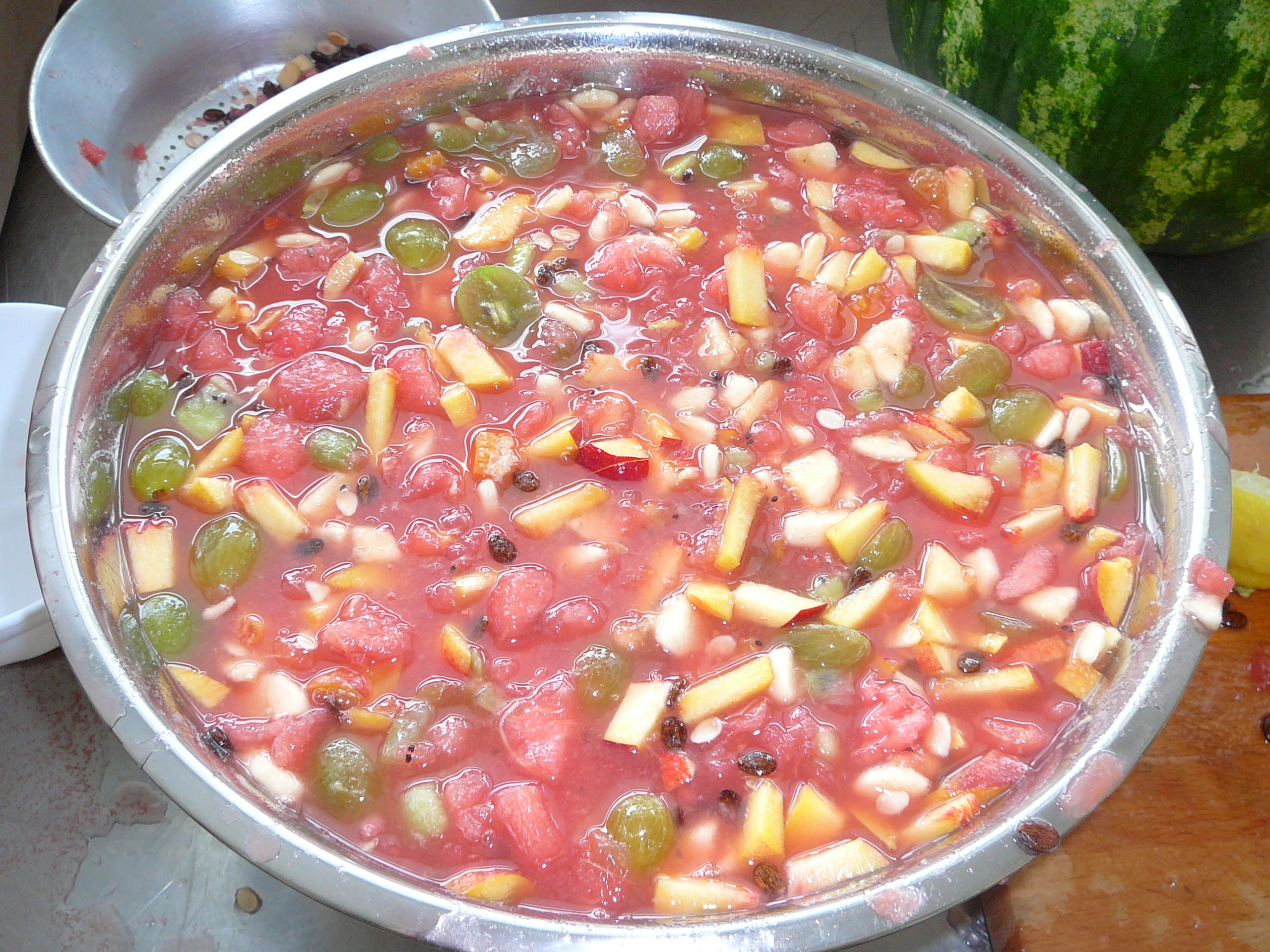 Fruit salad